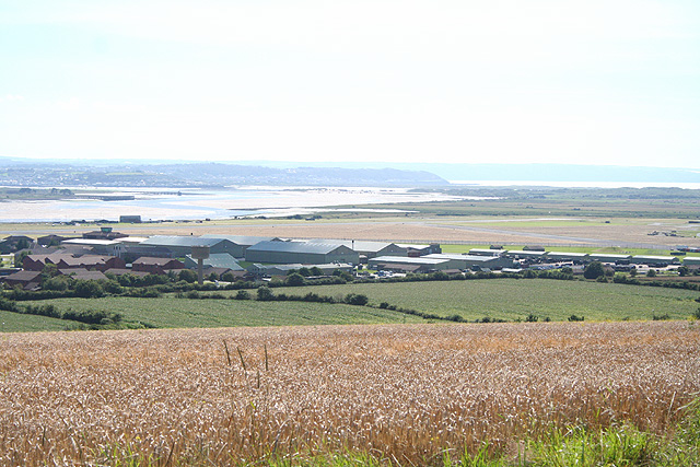 Heanton Punchardon: towards Chivenor airfield A field of ripening barley with RMB Chivenor beyond. The airfield retains its runways – largely in square SS4934 – and control tower but no helicopters are visible: no 22 Squadron search and rescue is or was based here. Chivenor was the base where the Leigh Light was brought into use by Coastal Command in the U-Boat offensive in World War II. Squadrons of Vickers Wellingtons were stationed here equipped with a searchlight used at night to locate German submarines recharging their batteries on the surface in the Bay of Biscay. Today the complex is a Royal Marines base. Beyond the airfield, the Taw estuary